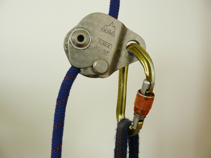 Ascender URAL-ALP